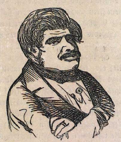 Newspaper caricature of Edvard Meyer, probably dating from 1842-52 when he was editor of "Flyver-Posten".